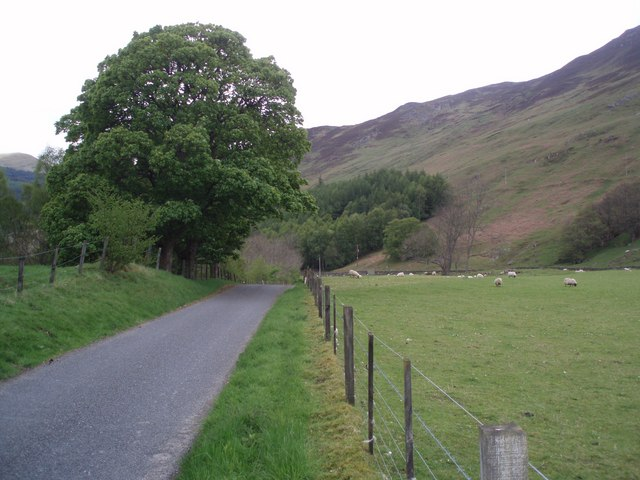 Near Invervar, Glen Lyon Country road in Glen Lyon just east of Invervar. Sycamore tree in full leaf at left of photo.